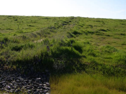 EPA photograph of a drainage channel on the slopes of the old Fresno Landfill. This site is both a National Historic Landmark and a Superfund site.